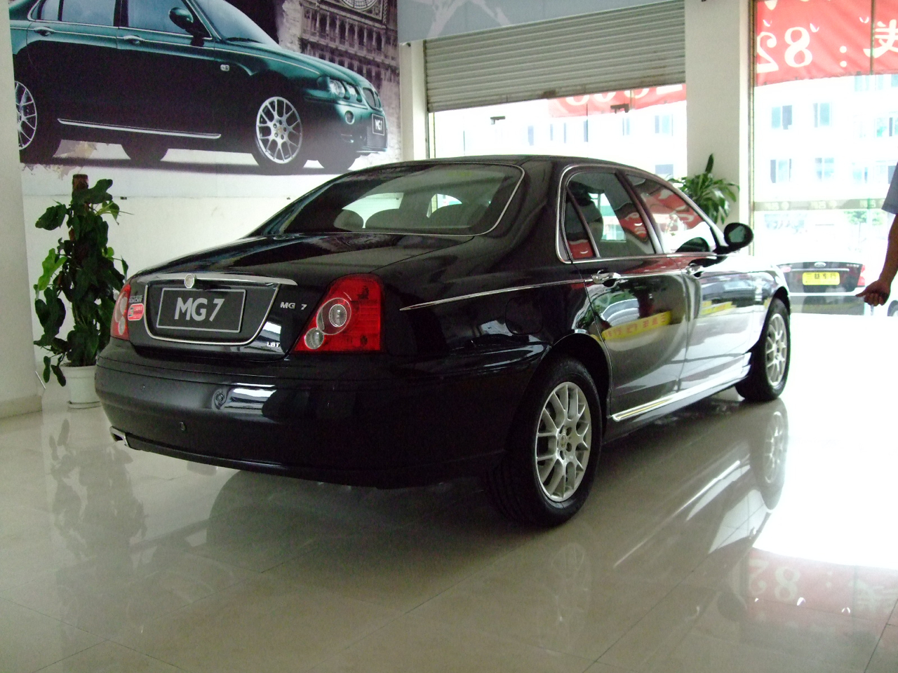 2008 MG 7 sedan rear view in China